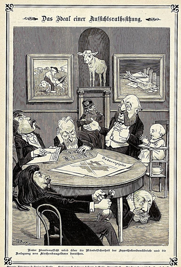 Das Ideal einer Aufsichtsratssitzung. In: Kladderadatsch - Jg. 54, Nr. 1. S. 4.